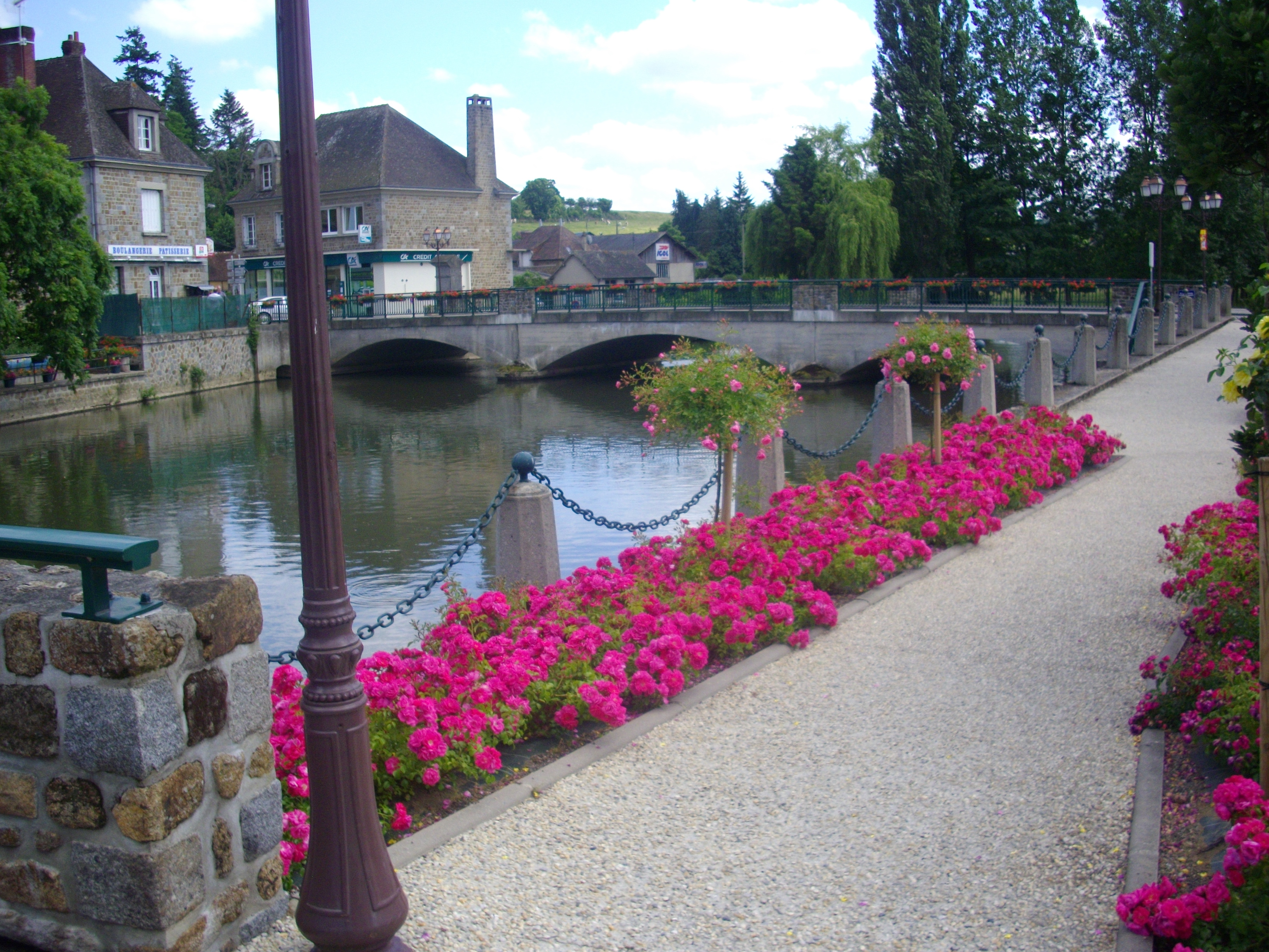 Orne River in Putanges-Pont-Ecrepin (Basse-Normandie, France)